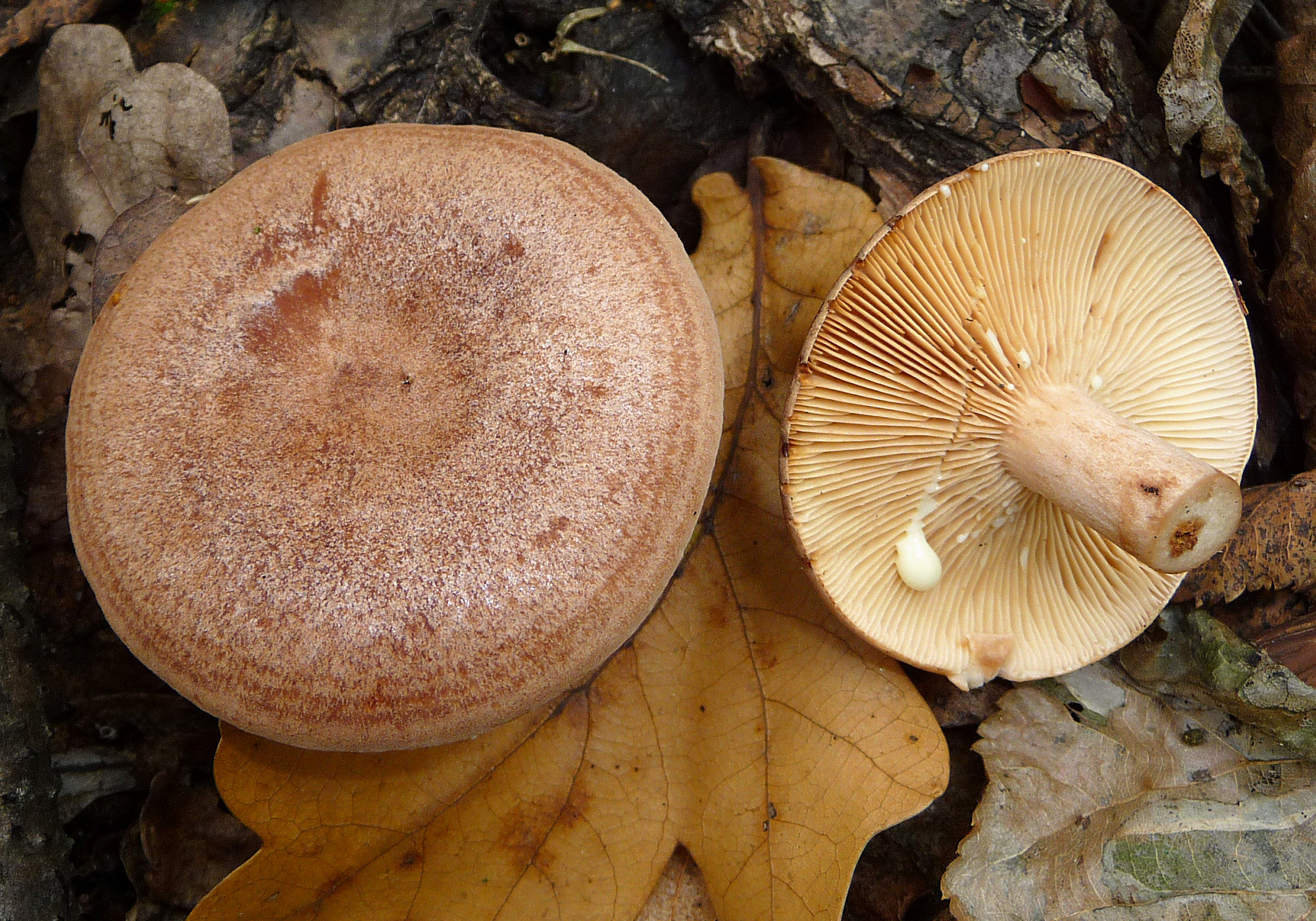 Oak Milk Cap (Lactarius quietus). Ukraine.